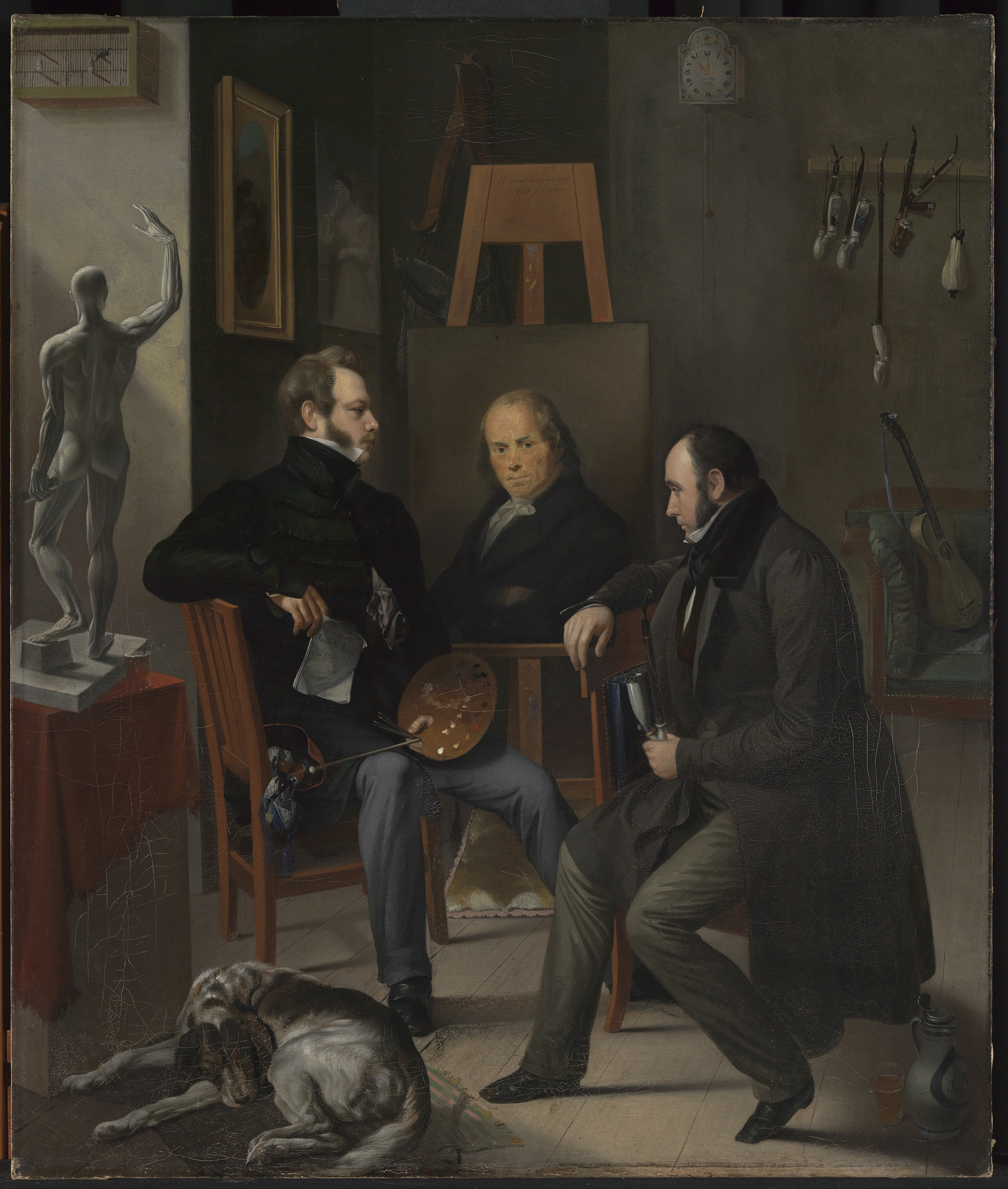 1585_Weber 001